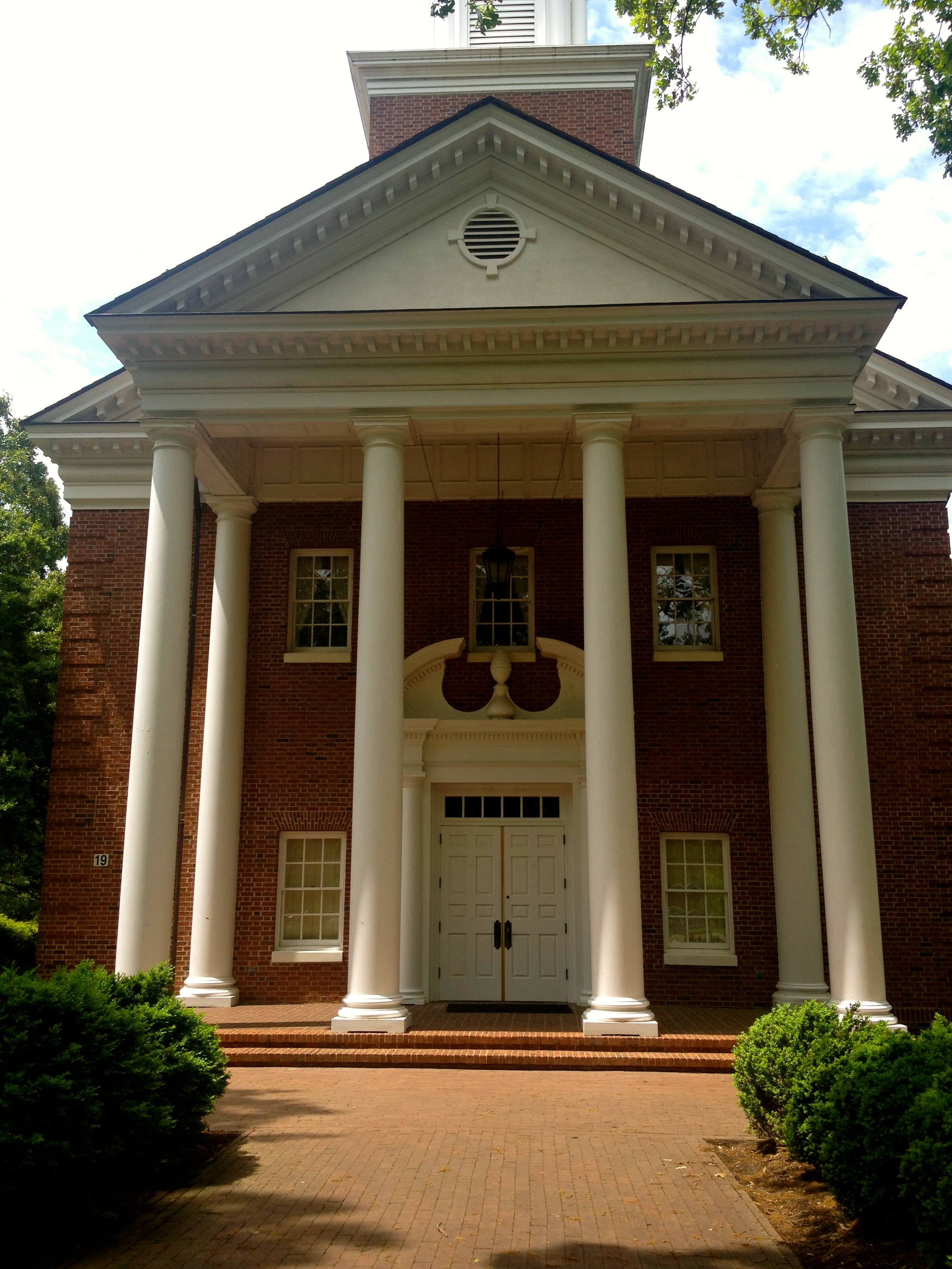 Jones Chapel